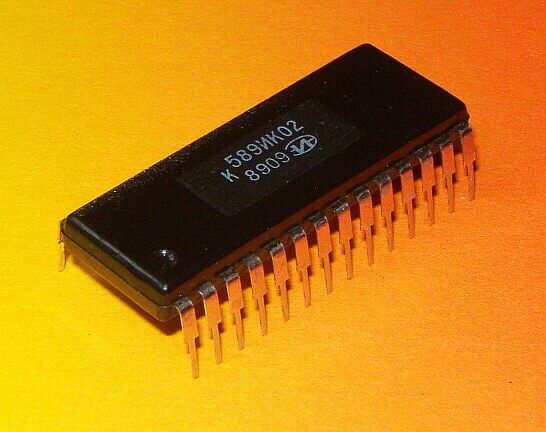 USSR K589IK02, equivalent to Intel 3002